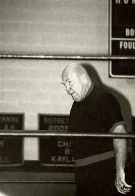 Wrestling legend George The Animal Steele on 3/28/09 from Franklin PA